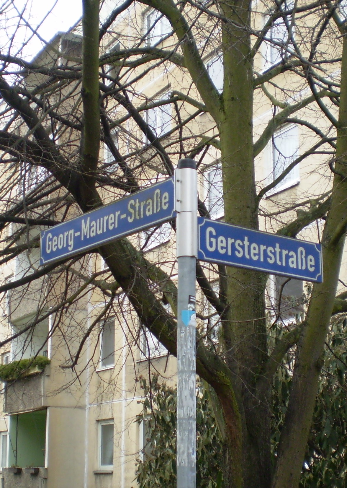 Street sign, Leipzig, Germany